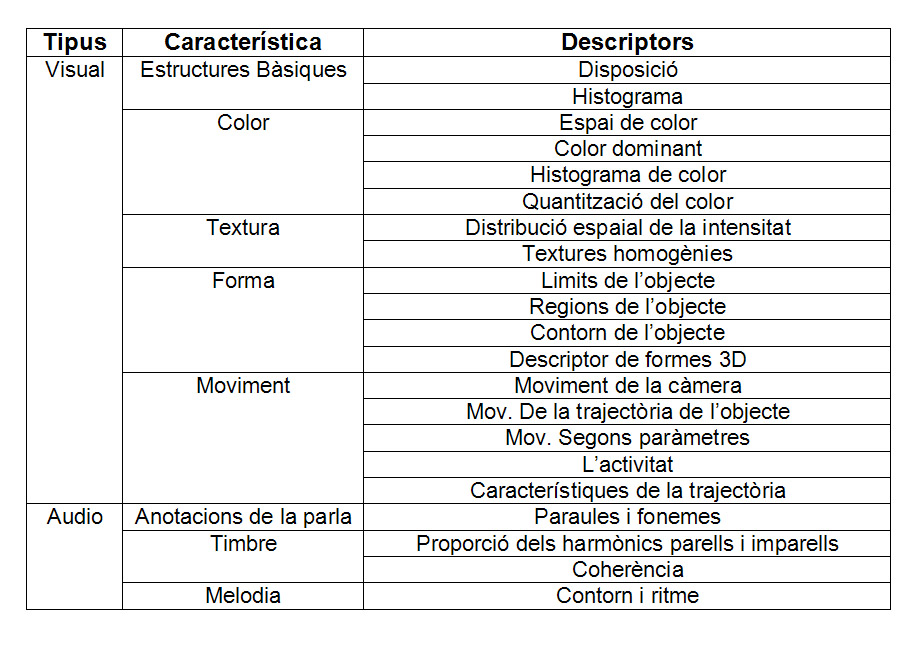 audio/video descriptors